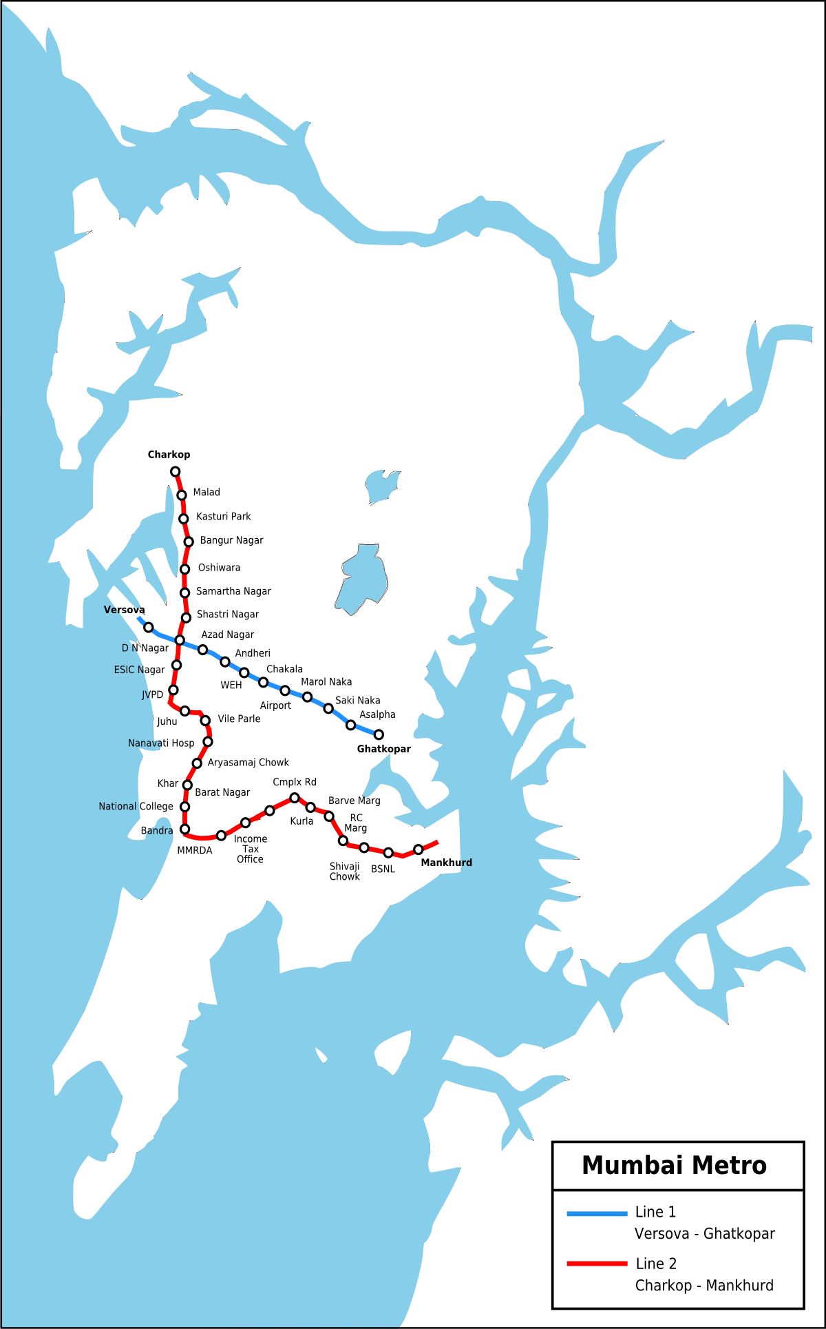 Map of Mumbai Metro created using Inkscape